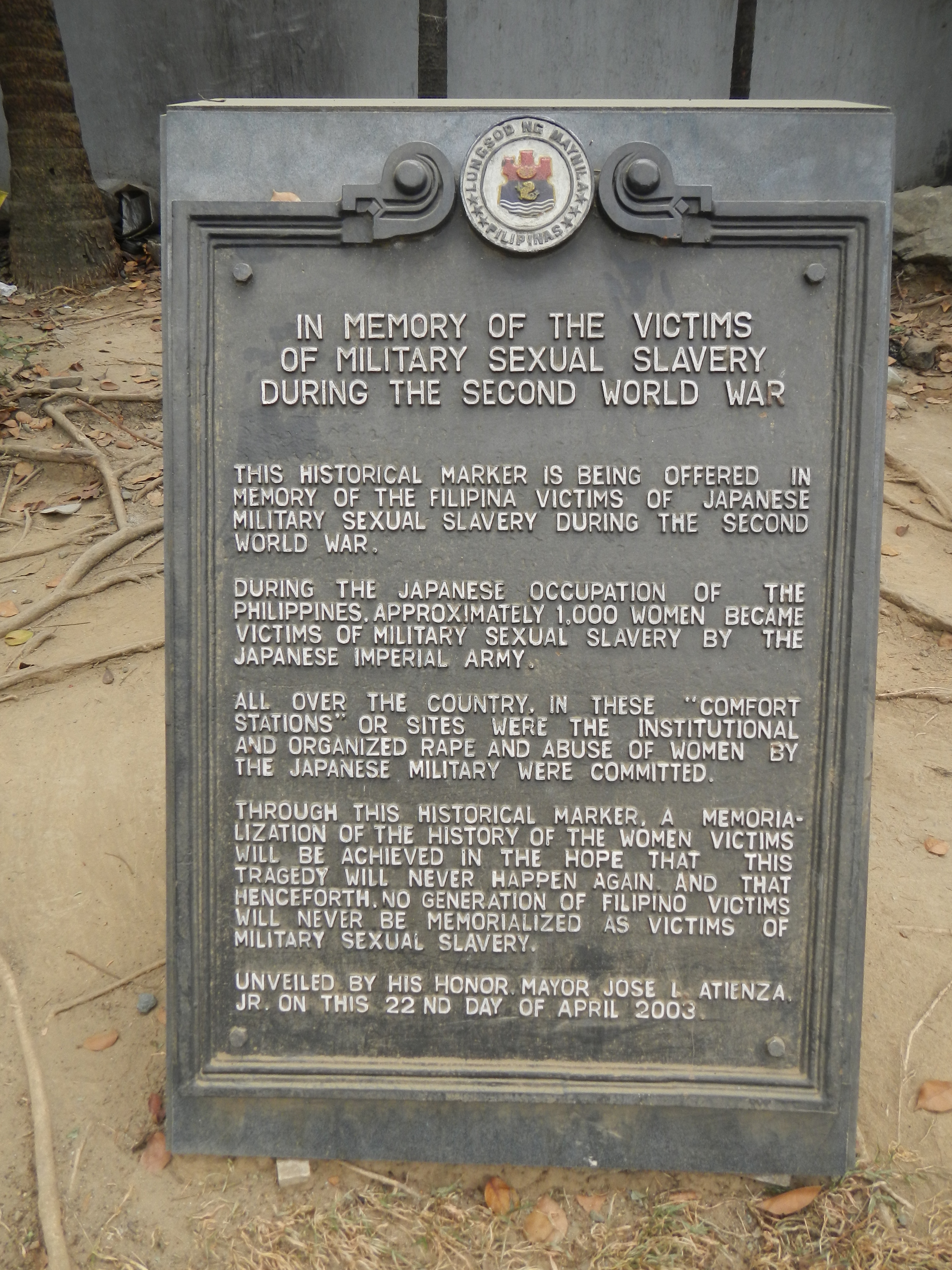 Comfort women[1] marker at Liwasang Bonifacio April 22, 2003 Rosa Henson[2] by the [3] Imperial Japanese Army during World War II and Walterina Markova [4]Walter Dempster, Jr. Markova: Comfort Gay [5]